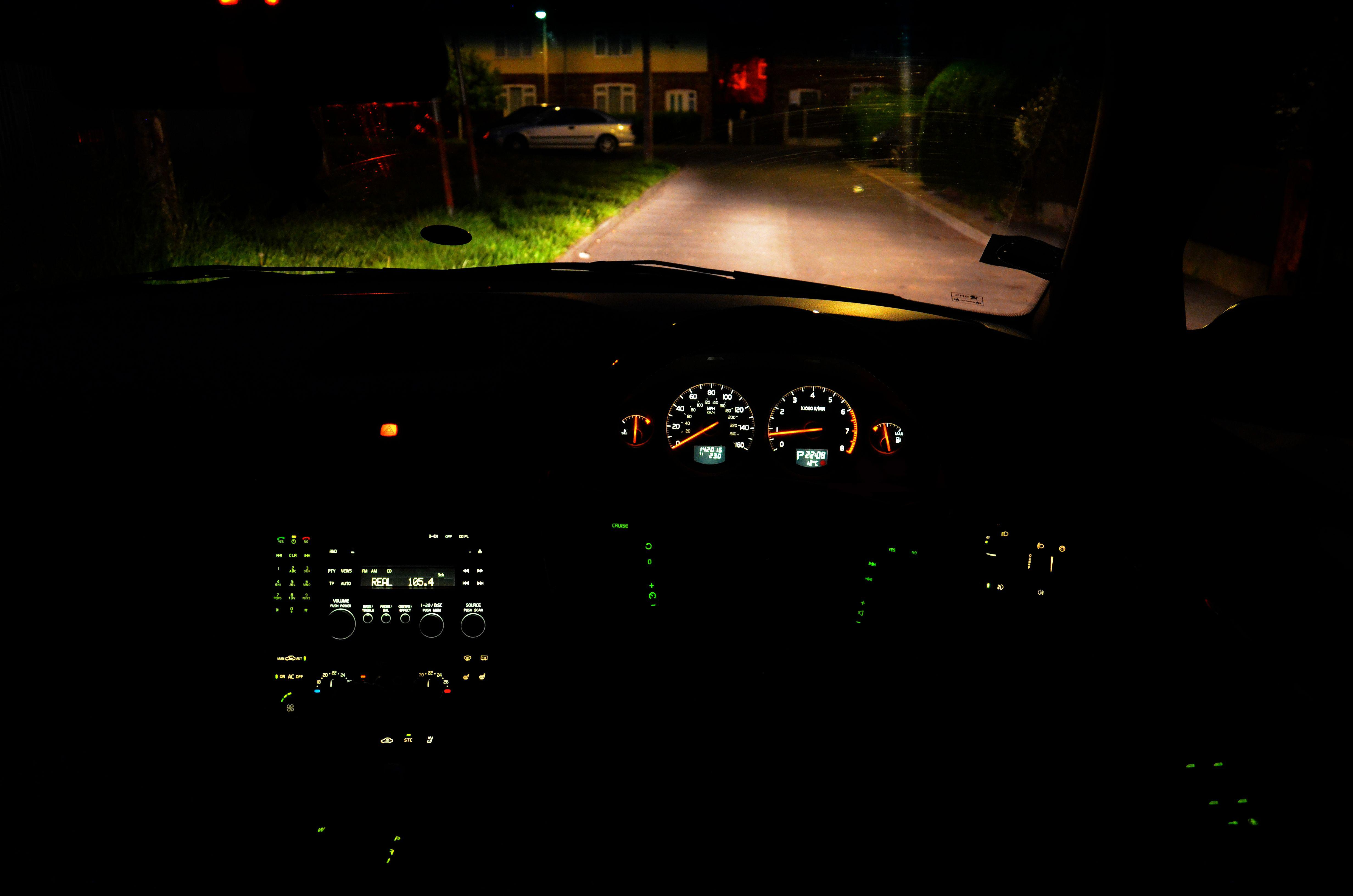 Volvo S80 2.4T 2002 Blue, night dashboard.